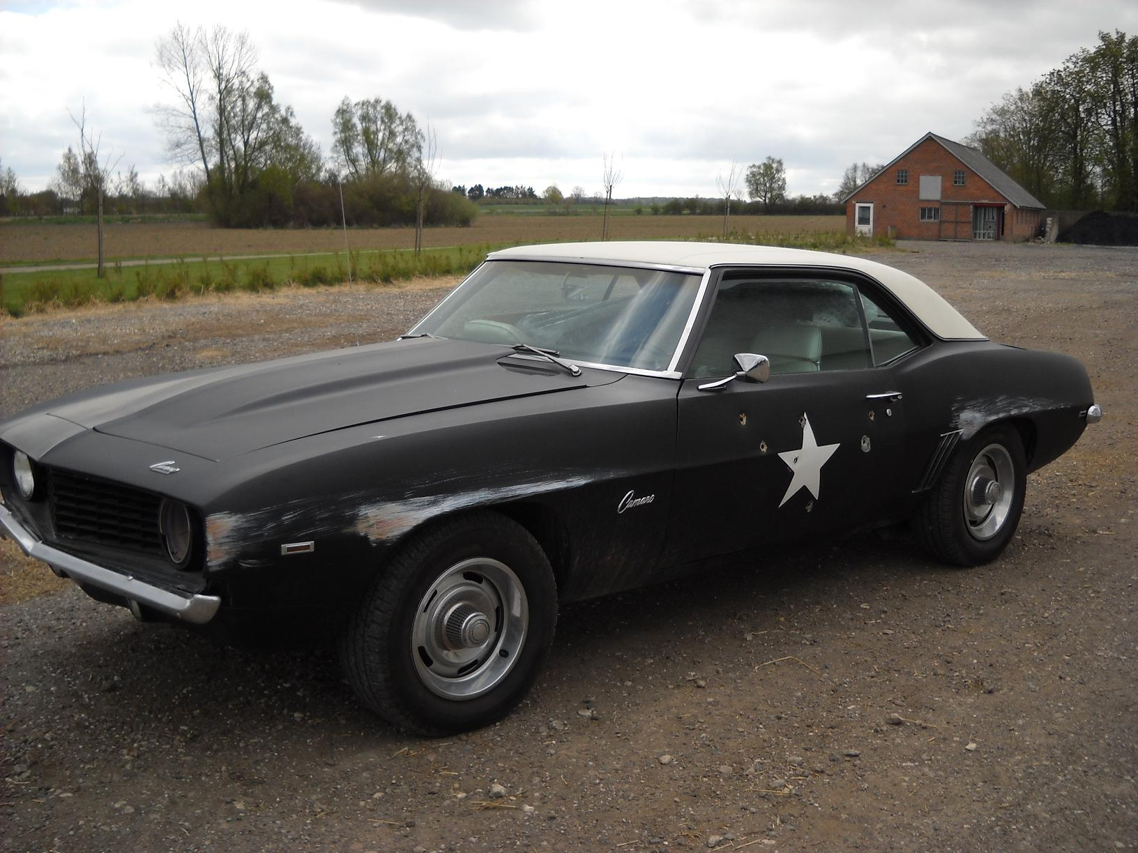 Jakob Klugs 69 Stylo Camaro used in the Gorillaz music video